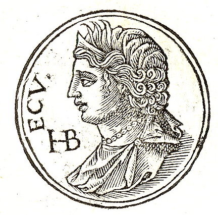 Hecuba was a queen in Greek mythology, the wife of King Priam of Troy, with whom she had 19 children.